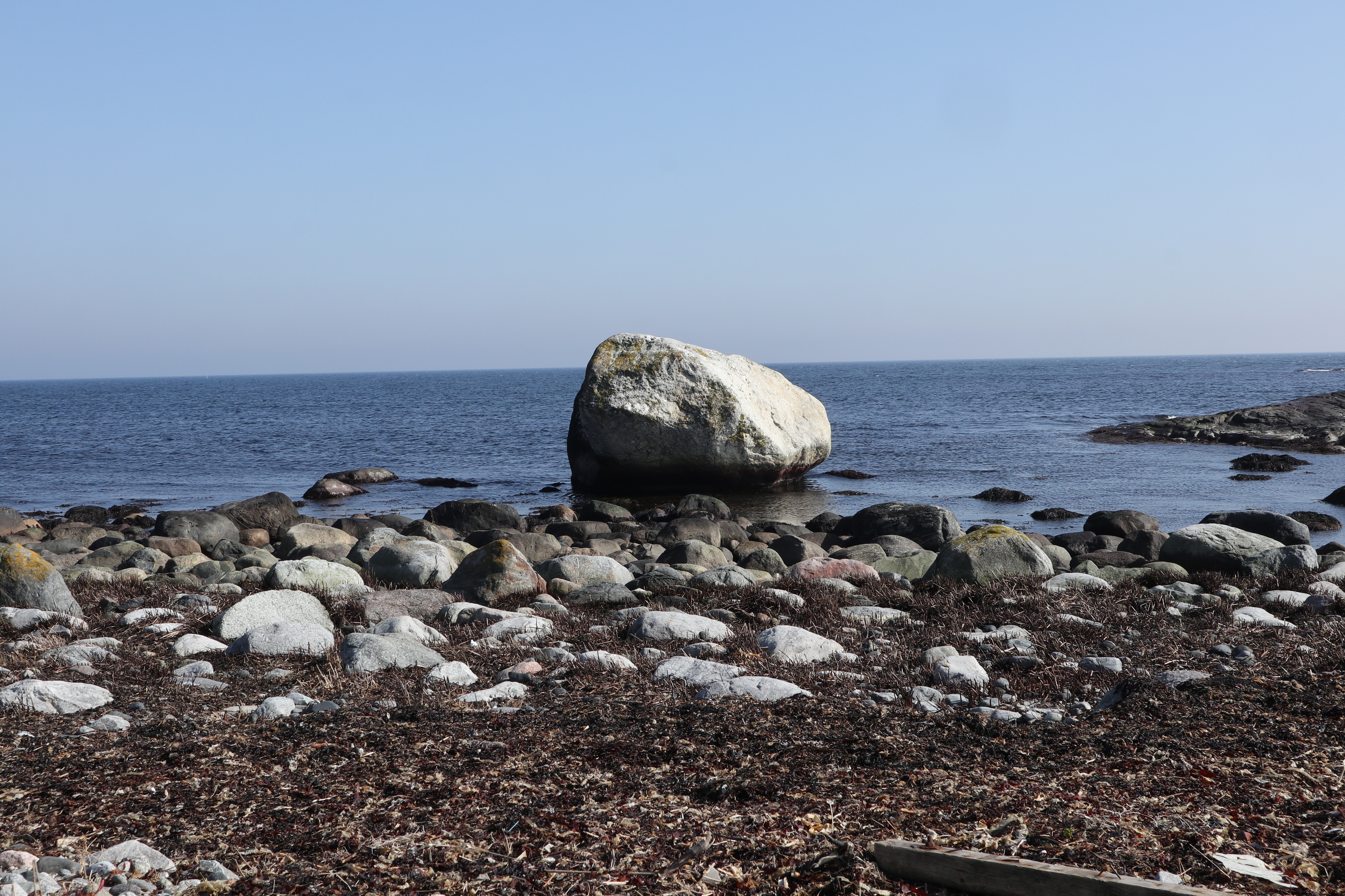 Stones and the sea